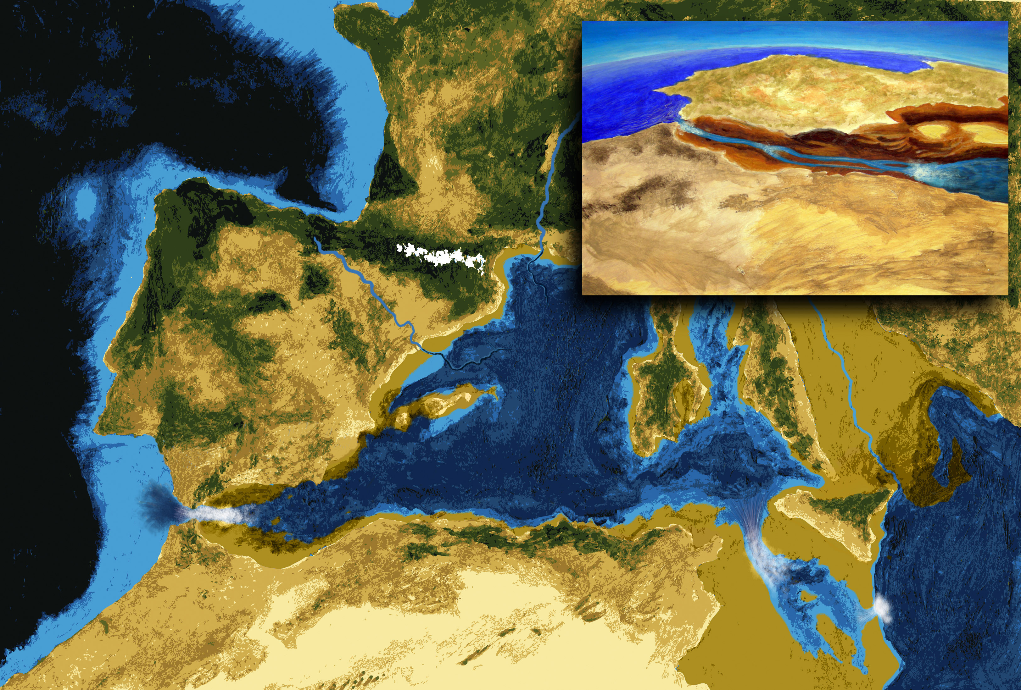 Artistic interpretation of the flooding of the Mediterranean through the Gibraltar Strait (A) and the Sicilian strait (F).